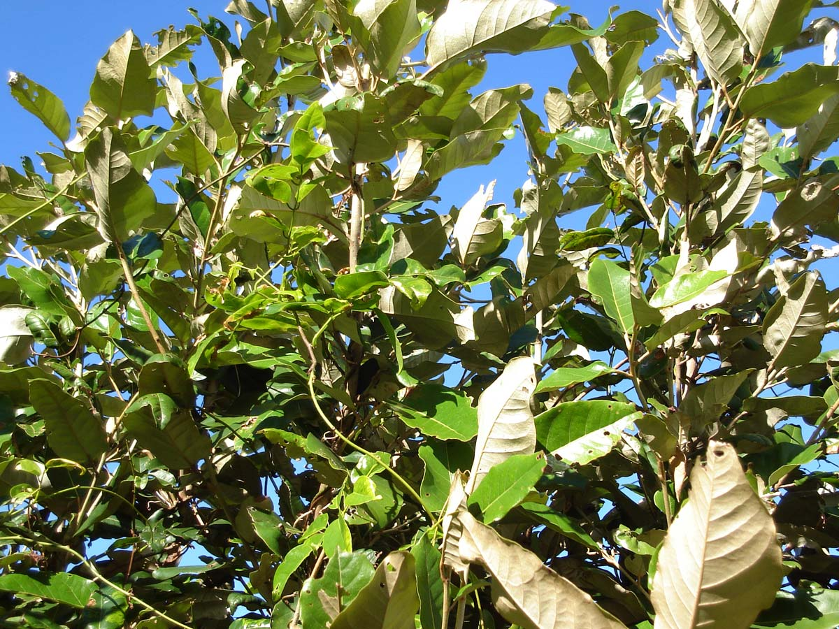 Heritiera littoralis (mamaea) in the Matahangale swamp of Tongatapu